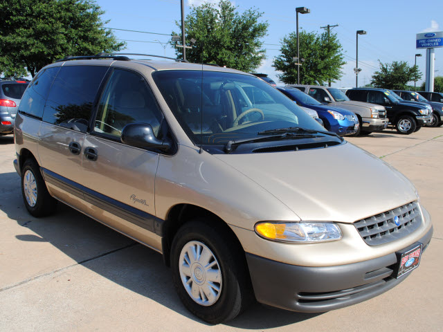 1998 Plymouth Voyager (short wheelbase) SE